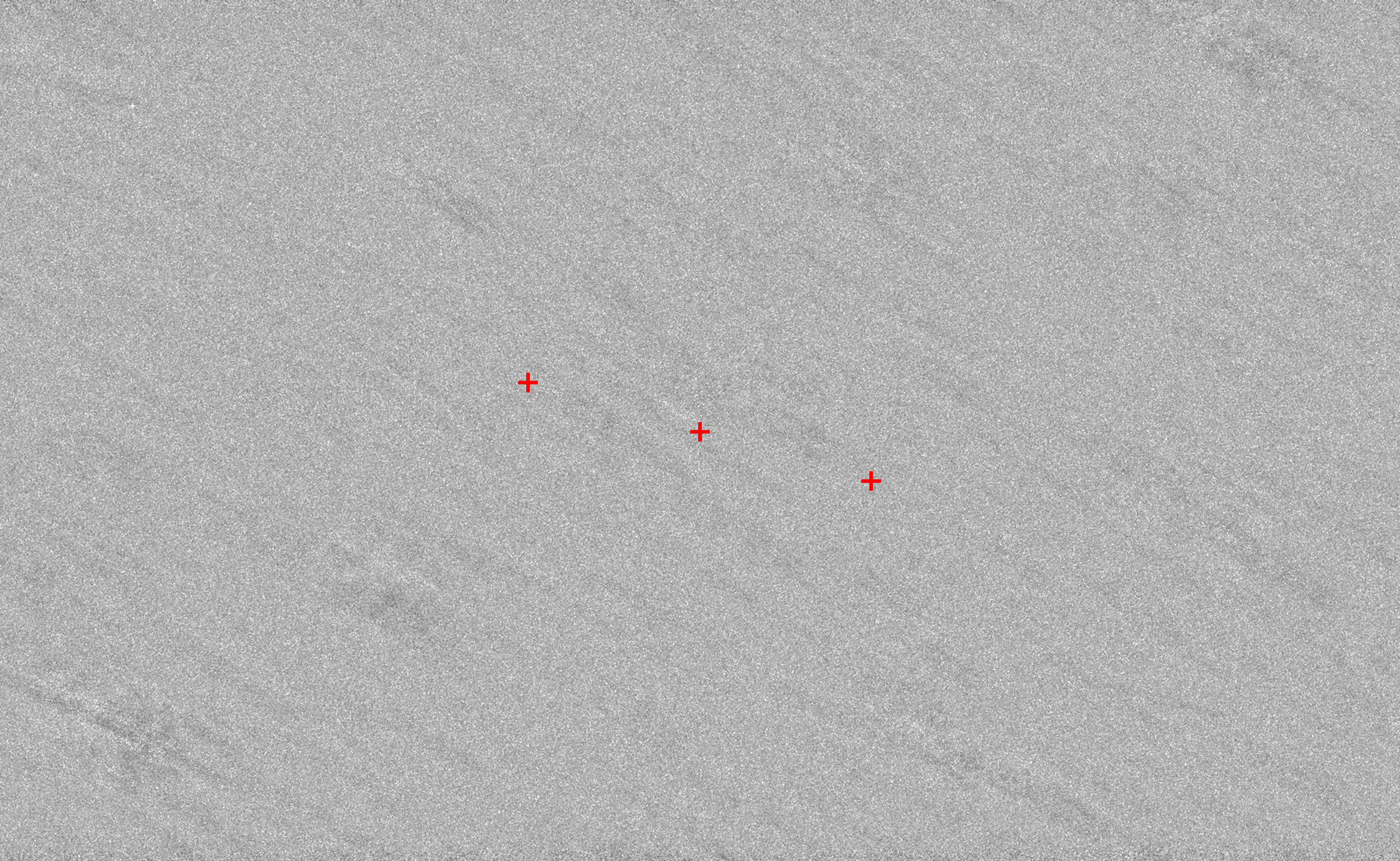 This image shows the region of the sky where asteroid 2006 QV89 would have been seen if on a collision course with Earth in 2019. The three red crosses reveal the specific locations, where the asteroid could have appeared as a single, big black, round source, had it been on a collision course. Nothing was seen. Even if the asteroid were smaller than expected, at only a few metres across, it would have been seen in the image. Any smaller than this and the VLT could not have spotted it, but it would also be considered harmless as any asteroid this size would burn up in Earth’s atmosphere.